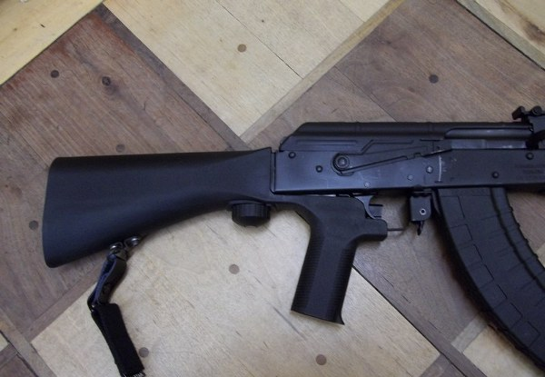 This Photo shows the Slide Fire Solutions SSAK-47-XRS-RH Bump Fire Stock mounted on a GP WASR-10/36 AK-47.